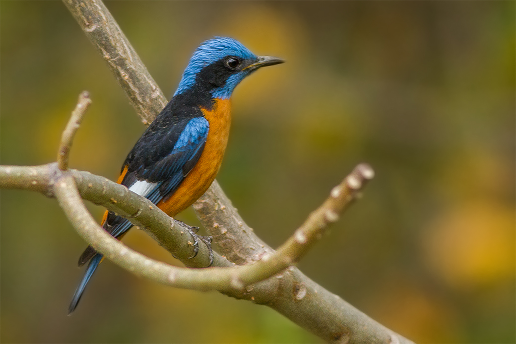 Blue-capped Rock Thrush | Ghatgarh, Uttarakhand, India